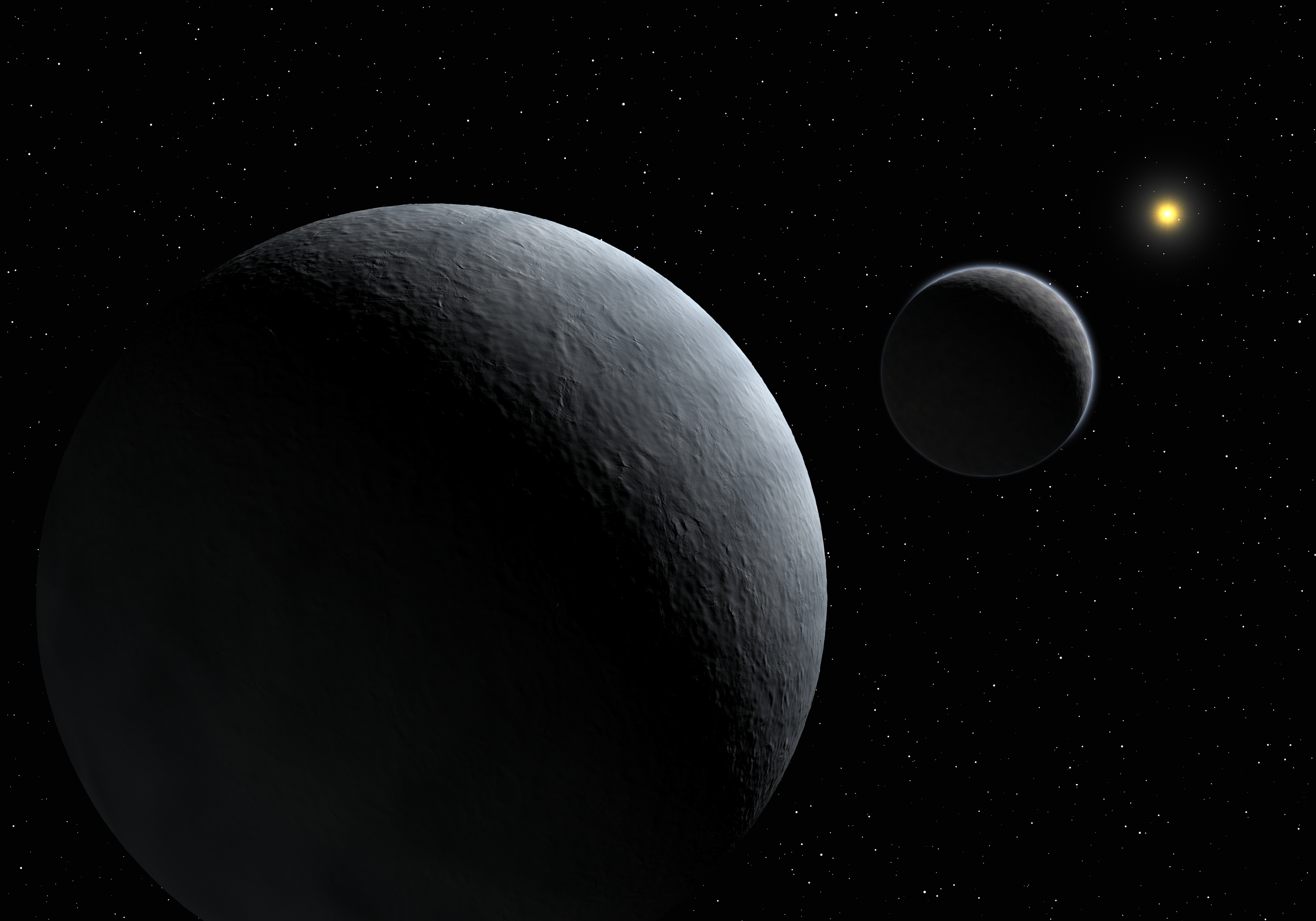 Artist's Impression of the Pluto-Charon system. Observing a very rare occultation of a star by Pluto's satellite Charon from three different sites, including Paranal, home of the VLT, astronomers were able to determine with great accuracy the radius and density of the satellite to the farthest planet. The density, 1.71 that of water, is indicative of an icy body with about slightly more than half of rocks. The observations also put strong constraints on the existence of an atmosphere around Charon.